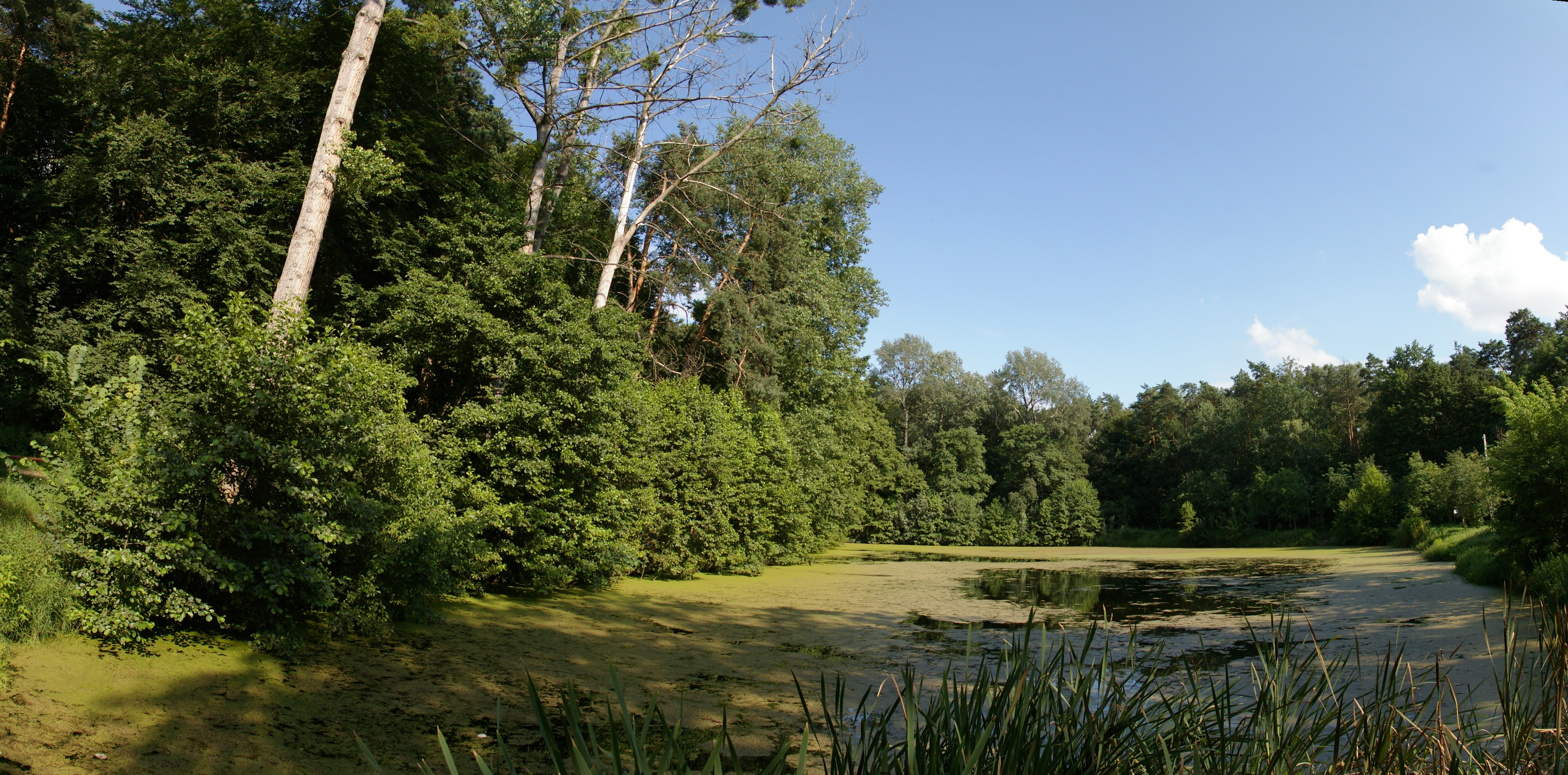 Barbarka, Toruń